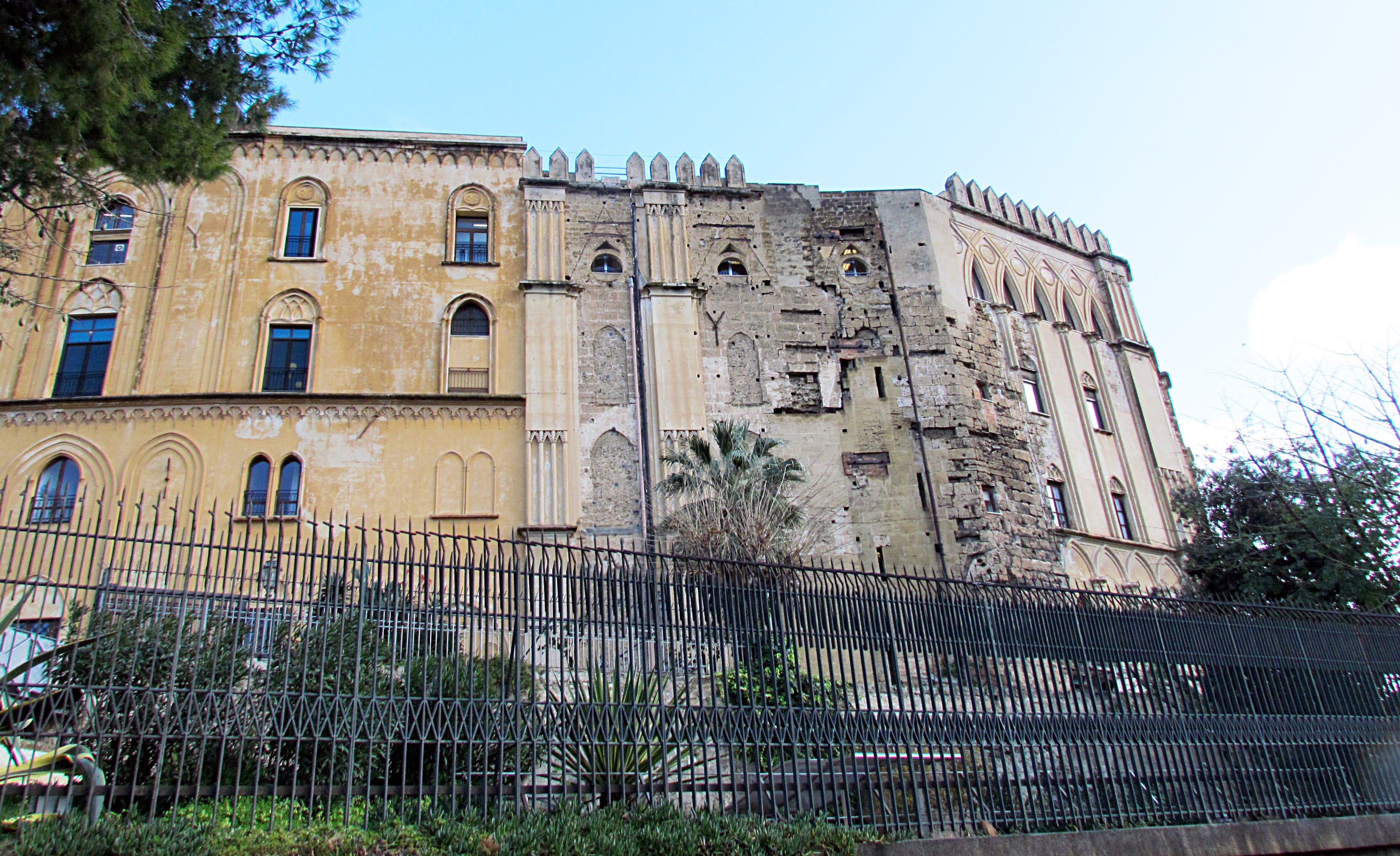 Palazzo dei Normani, west facade, Palermo (photo: Mihailo Grbic)